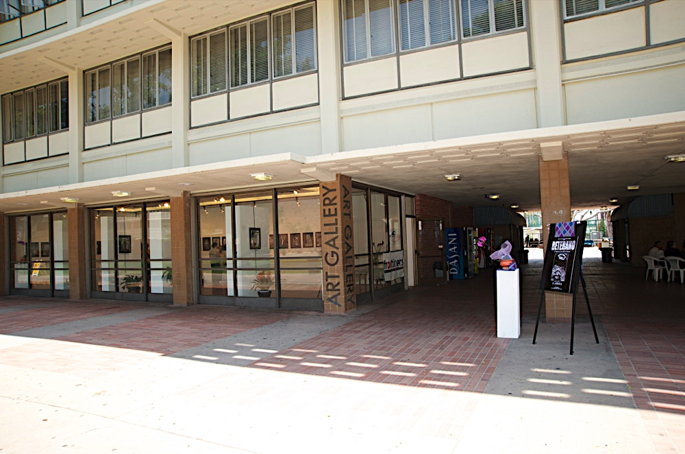 Los Angeles City College, Da Vinci Hall Art Gallery.